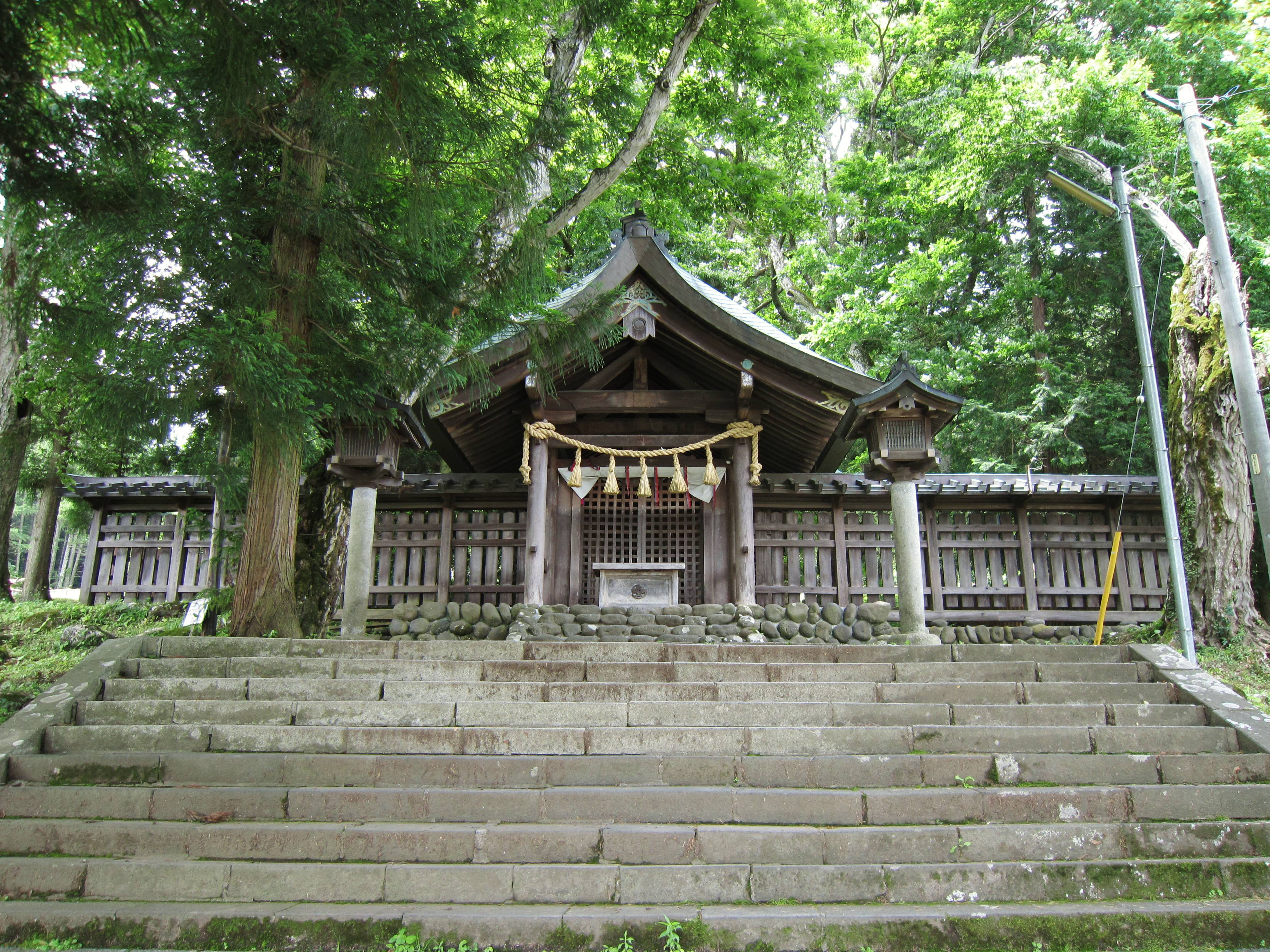 Suwa Taisha Maemiya.